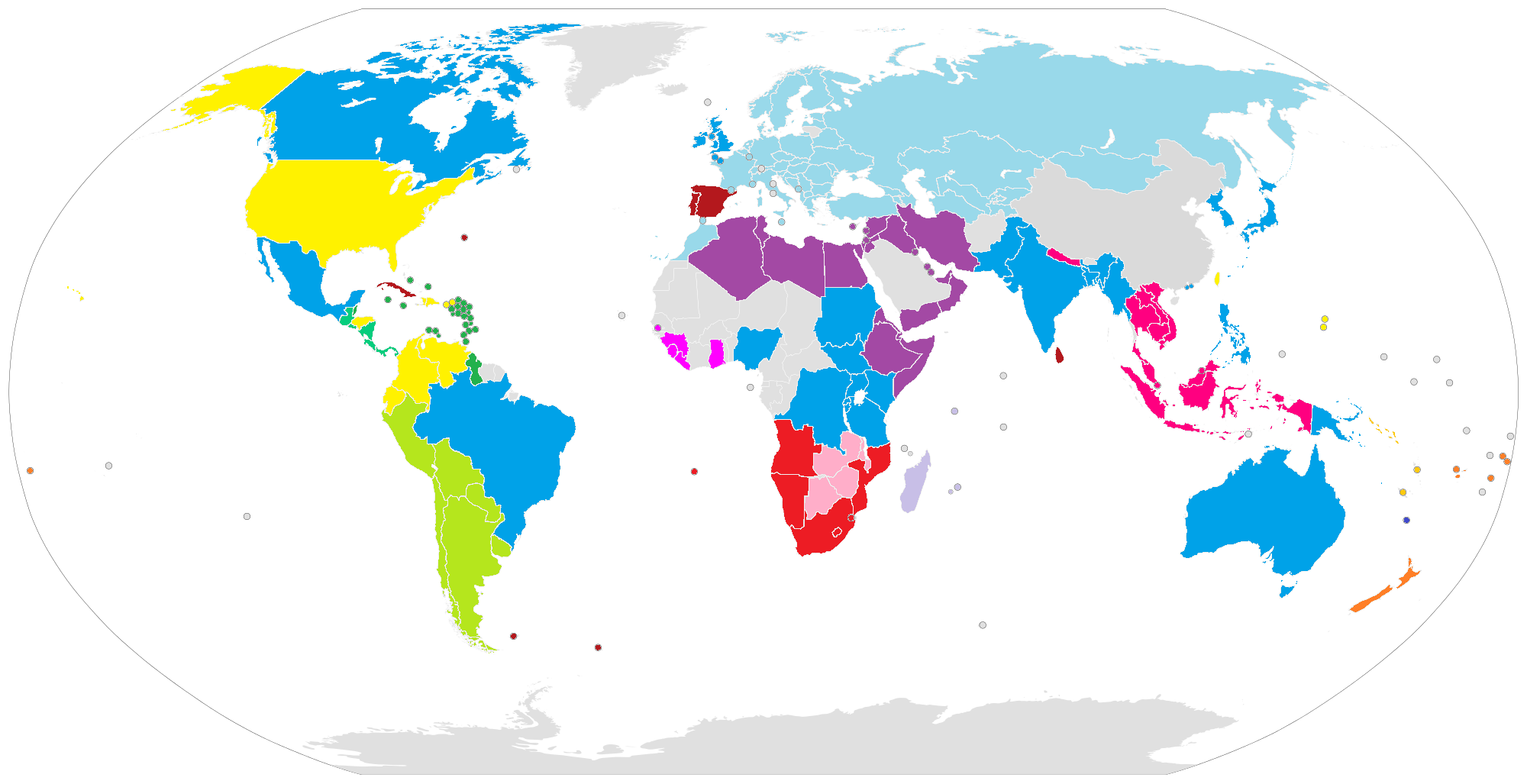 Autonomous churches Episcopal Church of the United States Church in the Province of the West Indies Anglican Church in Central America Anglican Church of the Southern Cone of America Anglican Church of Southern Africa Church of the Province of Central Africa Church of the Province of West Africa Episcopal Church in Jerusalem and the Middle East Church of the Province of the Indian Ocean Anglican Church in Aotearoa, New Zealand and Polynesia Church of the Province of Melanesia Diocese of Gibraltar of the Church of England Extra-provincial to the Archbishop of Canterbury Church of the Province of South East Asia Notes: The Church of Ireland serves both the Republic of Ireland and Northern Ireland. The Episcopal Church of Sudan serves both the Republic of Sudan and the Republic of South Sudan. The Anglican Church of Korea, theoretically, serves both North Korea and South Korea parts of the country. India is divided into a Church of North India and a Church of South India. The Diocese in Europe (formally the Diocese of Gibraltar in Europe), in the Province of Canterbury, is also present in Portugal and Spain. The Episcopal Church, USA affiliated Convocation of Episcopal Churches in Europe has affiliates in France, Belgium, Austria, Switzerland, Italy and Kazakhstan.